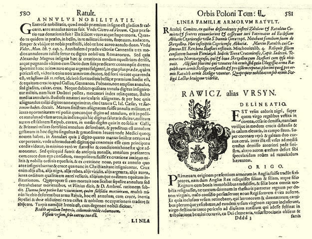 A page from an armorial "Orbis Poloni" written by Simon Okolski (1642, Krakow). A chapter devoted to Rawicz coat of arms.